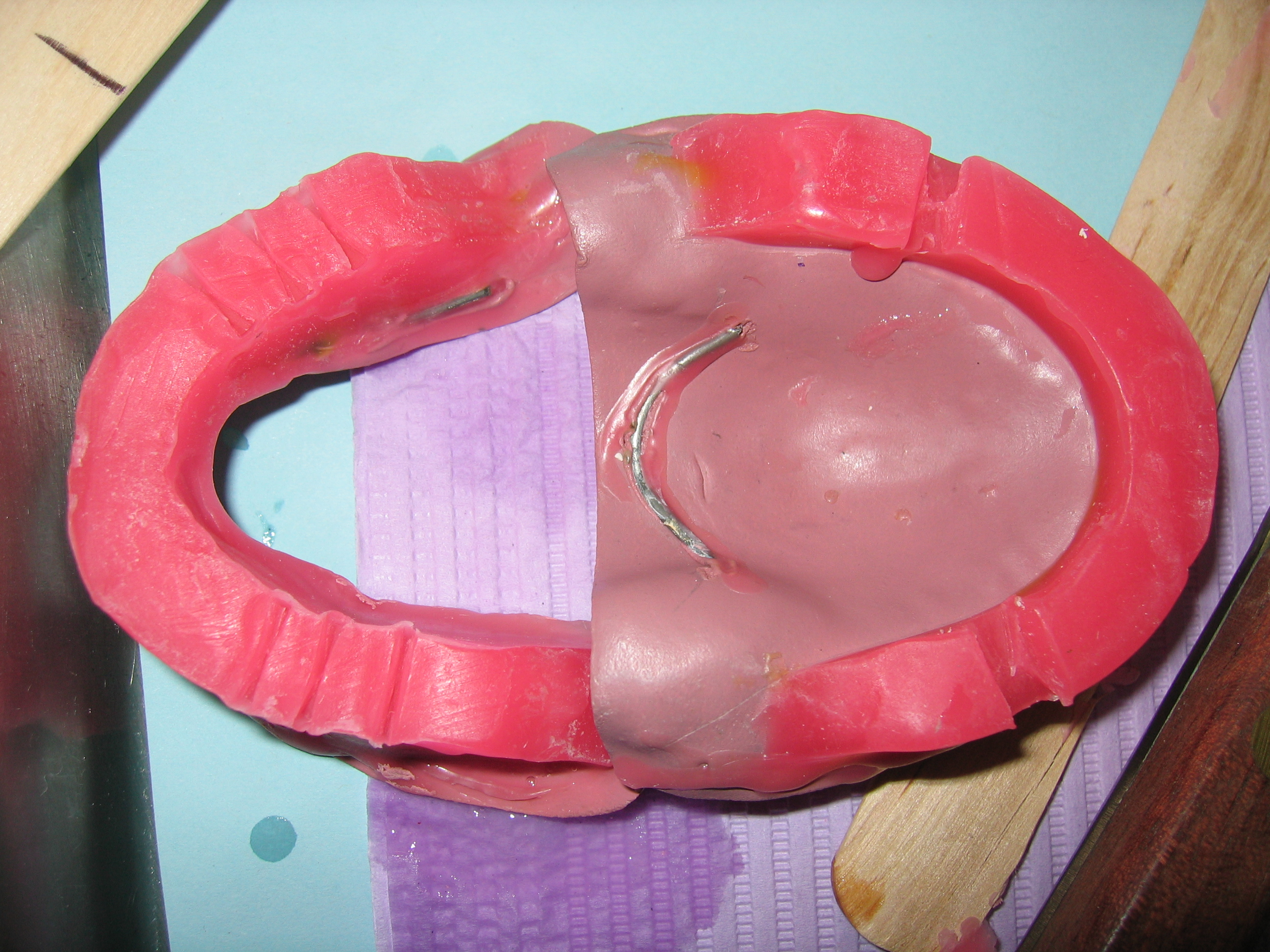 VDO measurements